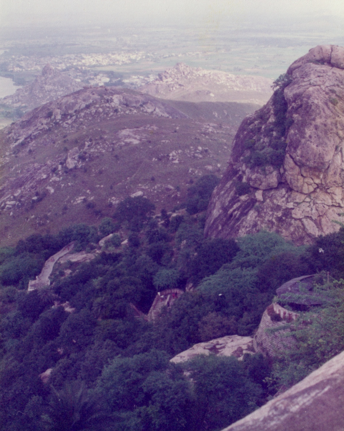 Sholinghur is a famous temple town in Tamil Nadu. Here is a view from the Lakshmi Narasimhaswamy temple atop a hillock, of the other hillocks and the temple town. The steps that lead to the temple are also seen among the green trees in the bottom.